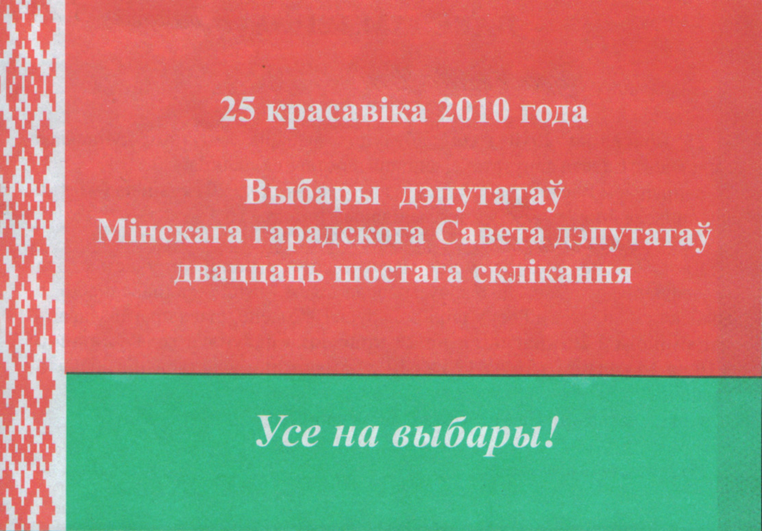 Voter invitation to municipal elections to the Minsk City Soviet of Representatives, 25.04.2010